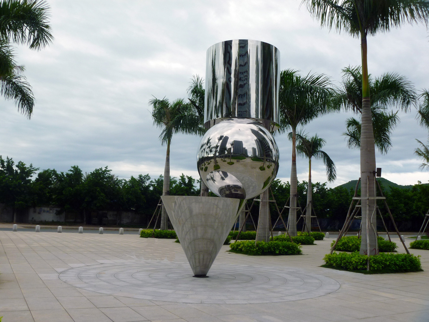 Parallel Universe, Shanghai (installed) 22012 Artist: Tom Shannon Photograph: Tom Shannon Source: Tom Shannon Studio Archive